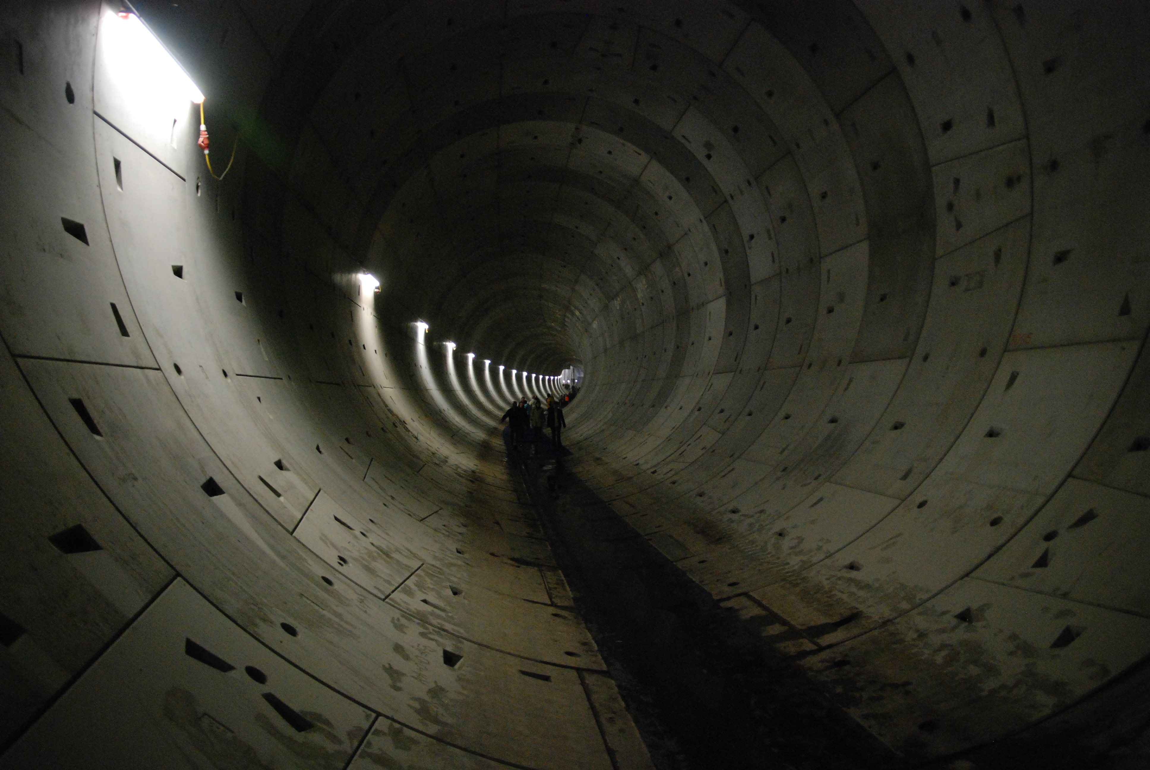 city tunnel Leipzig, tunnel segment, May 2008